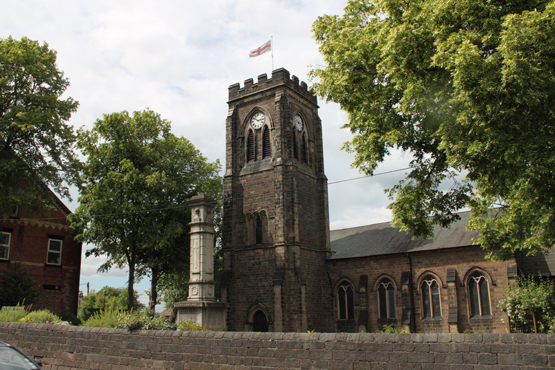 All Saints Church in Church Street, Ripley